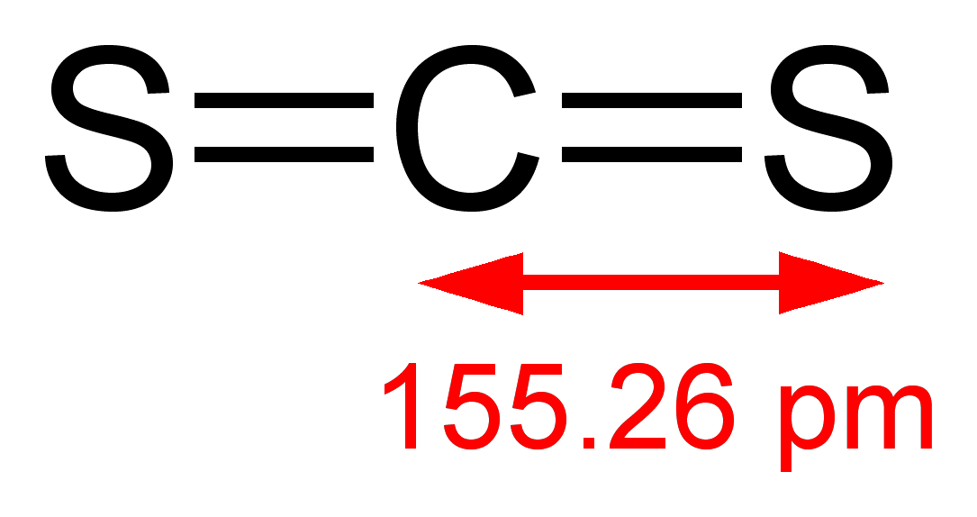 Structure of the carbon disulfide molecule, CS2, with the C=S bond length of 1.5526 Å. Data from CRC Handbook of Chemistry and Physics, 88th edition.